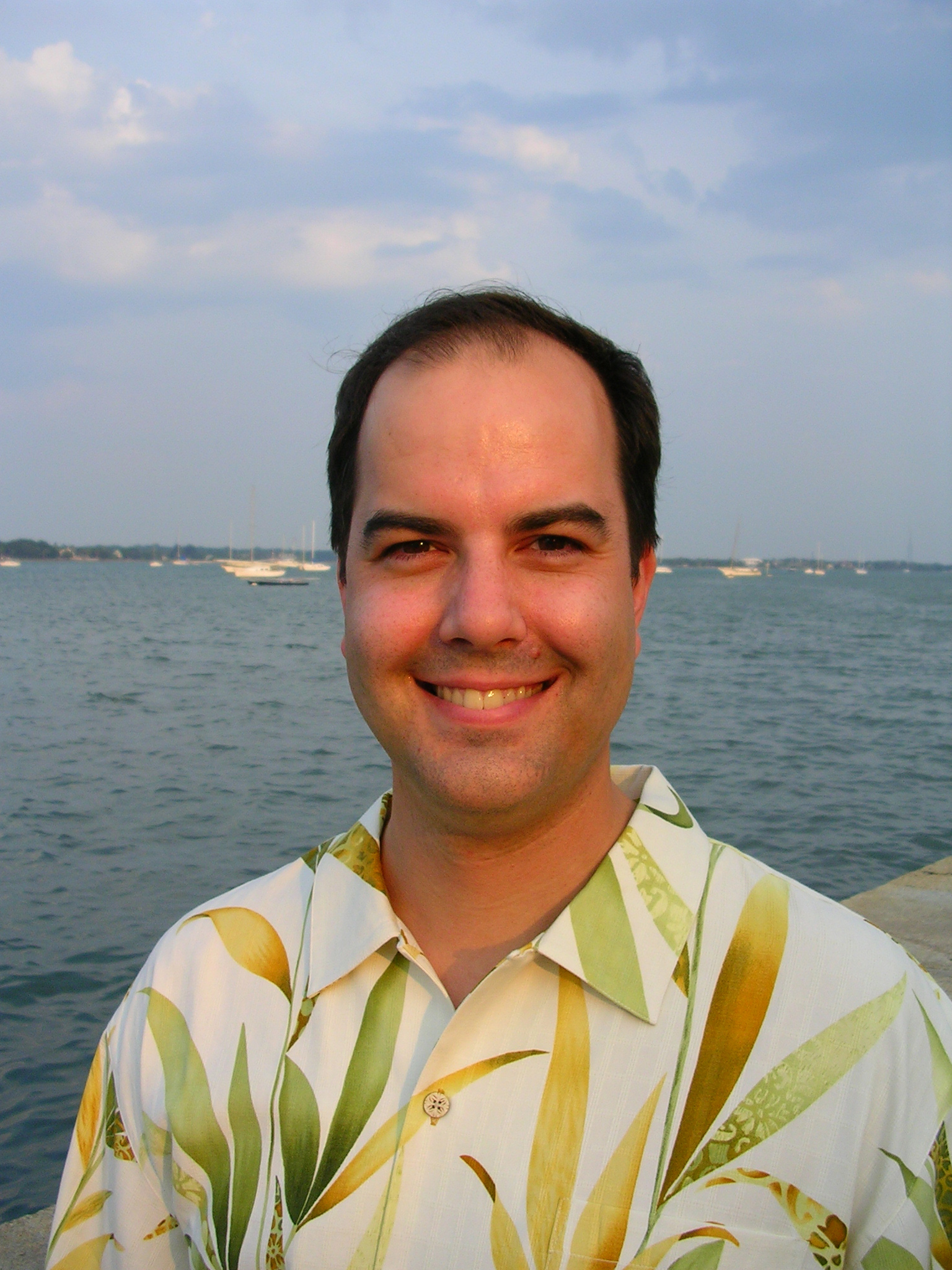 Brad Patrick, photographed in June, 2006, on vacation in St. Augustine, Florida.